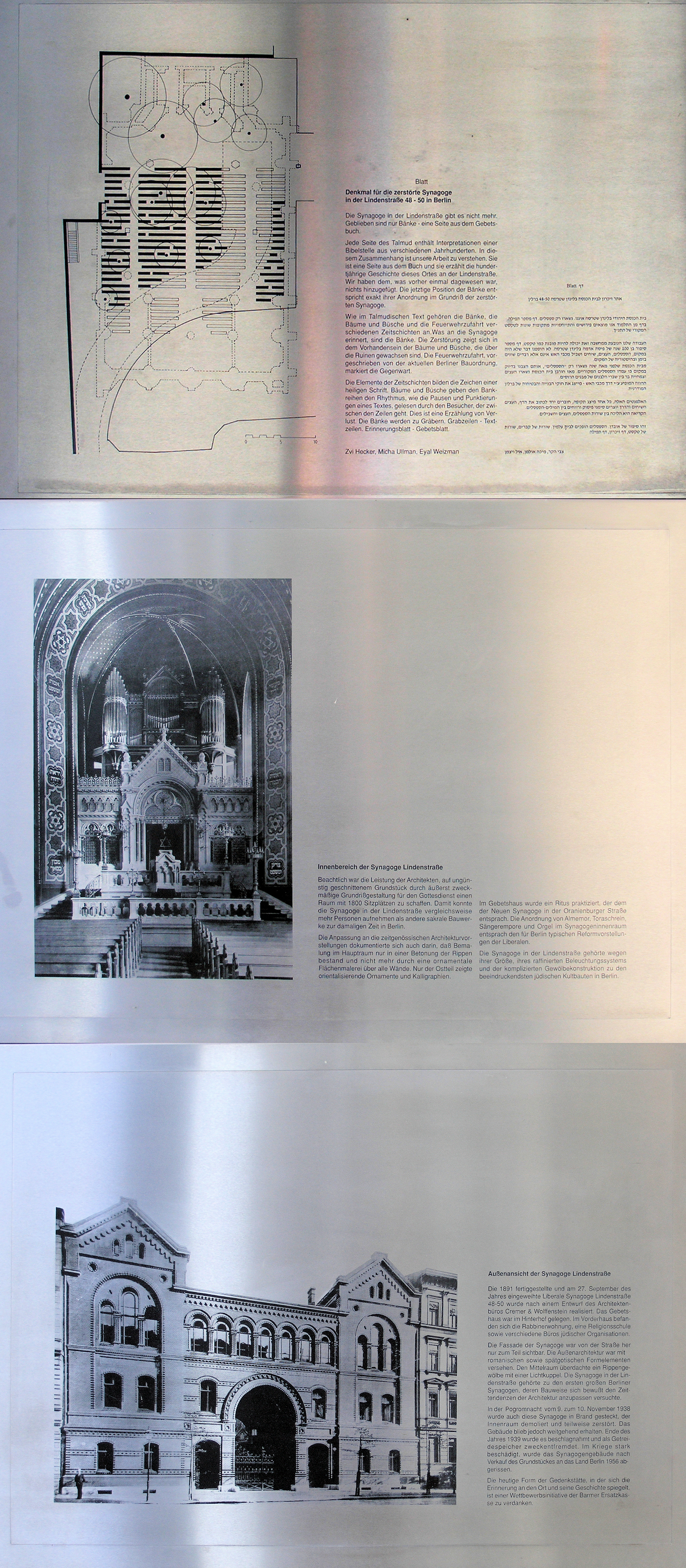 Memorial plaque, Synagoge Lindenstraße, Axel-Springer-Straße 50, Berlin-Kreuzberg, Germany Koordinate:52°30′31″N 13°23′59″E / 52.50861°N 13.39972°E